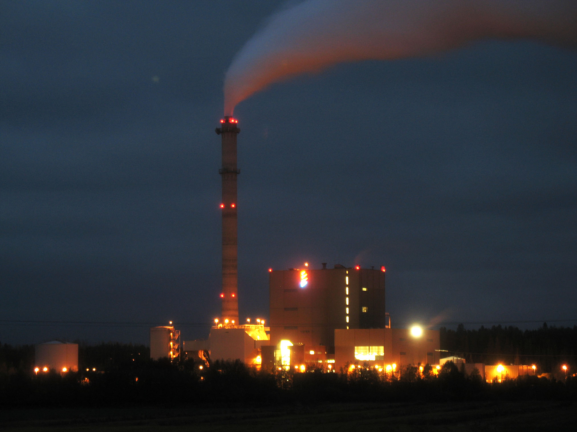 Kanteleen voima peat power plant in Haapavesi, Finland